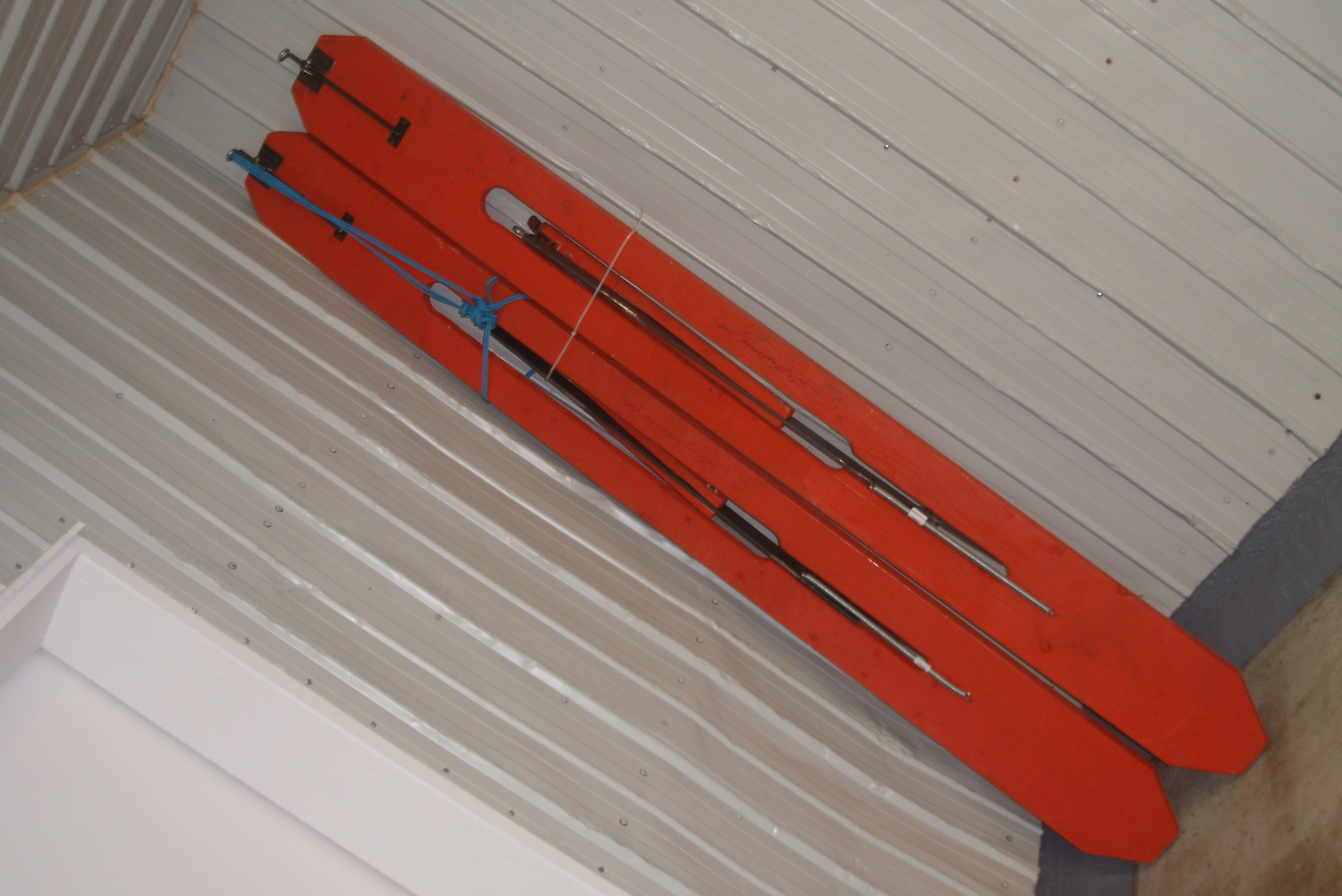 Two ice jiggers inside the fish loading and weighing area of J. Waite Fisheries Inc. on the shore of Churchill Lake in the village Buffalo Narrows, Saskatchewan. Used to draw nets under the ice. These are about eight feet in long